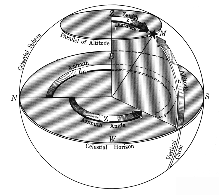 figure 1527b of APN2002